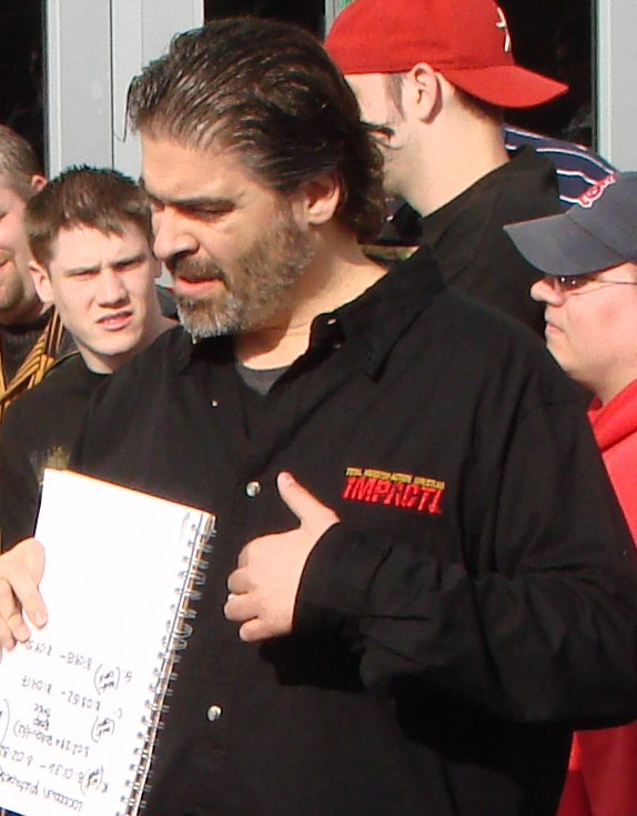 Vince Russo standing outside of the Family Arena in Saint Charles, Missouri on April 15, 2007